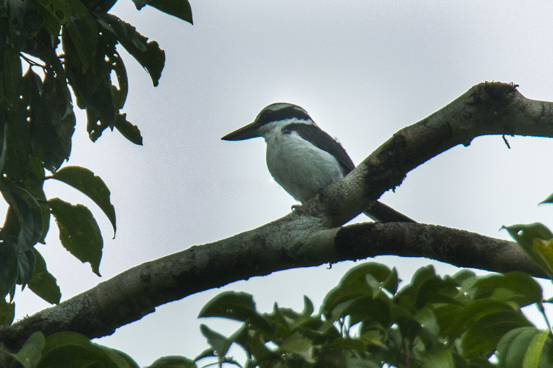 Sombre Kingfisher - Halmahera_S4E3923